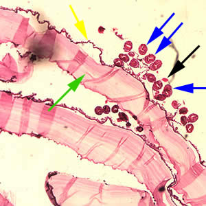 Cross-section of an Echinococcus granulosus cyst, stained with H&E. The cyst wall is composed of an acellular laminated external layer (green arrow) and a thin, germinal (nucleated) inner layer (yellow arrow). Note the brood capsule (black arrow) with protoscoleces (blue arrows) inside. Image taken at 40x magnification.